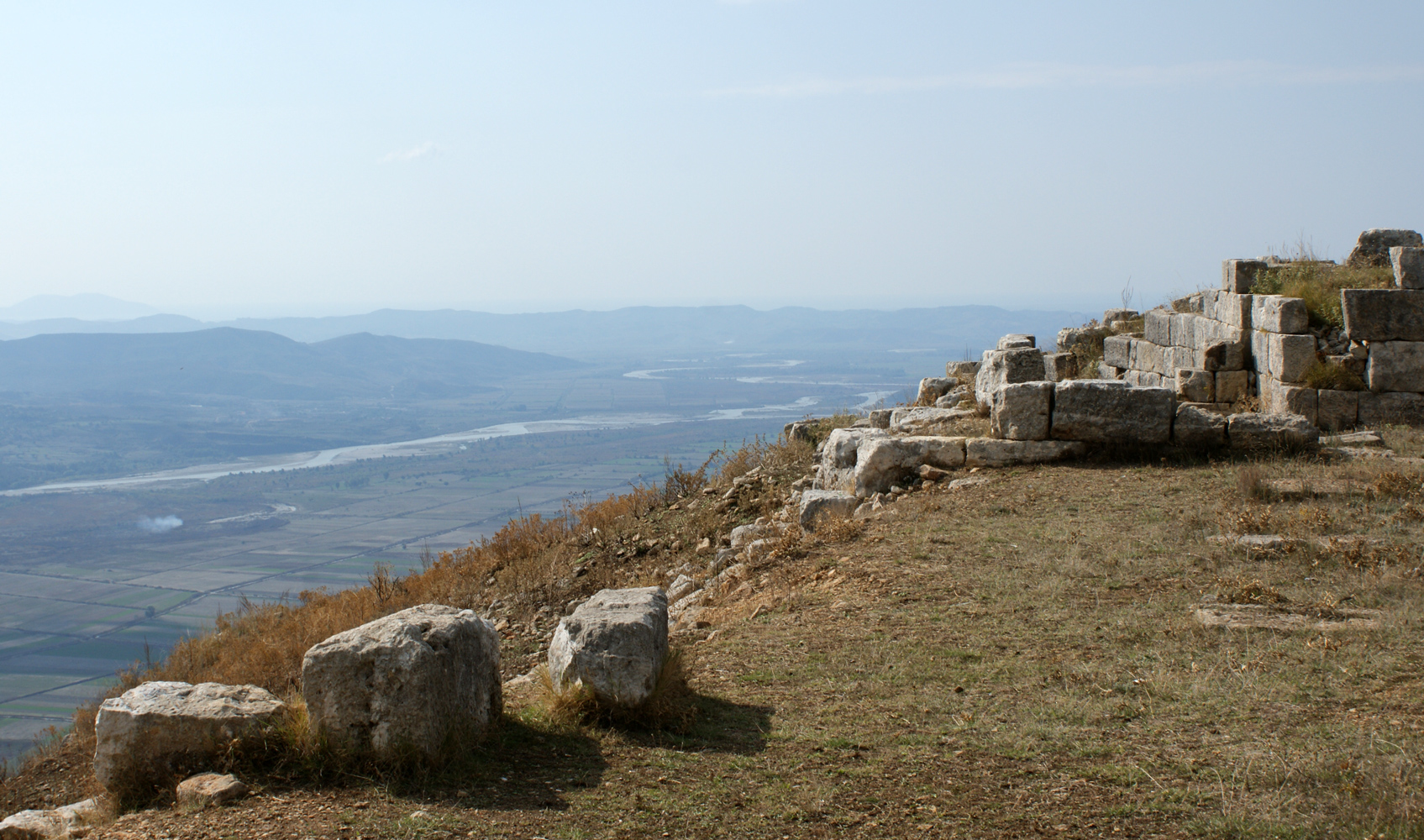 Byllis - Albania - City Wall - Vjosa River in Background